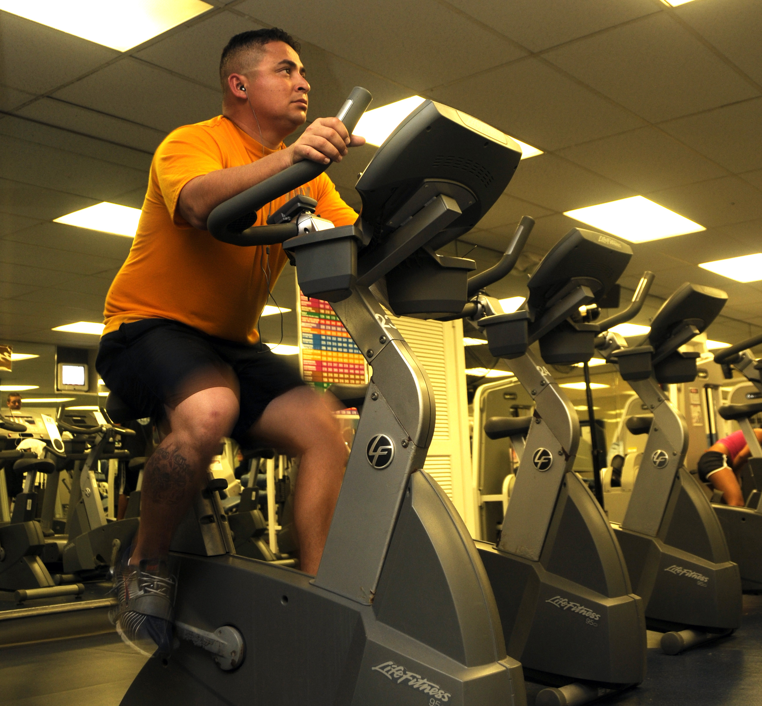 PEARL HARBOR (Jan. 20, 2010) Senior Chief Navy Counselor Tony Peraza assigned to Navy Recruiting District Los Angeles works out on a stationary bike. (U.S. Navy photo by Mass Communication Specialist 2nd Class Mark Logico/Released)